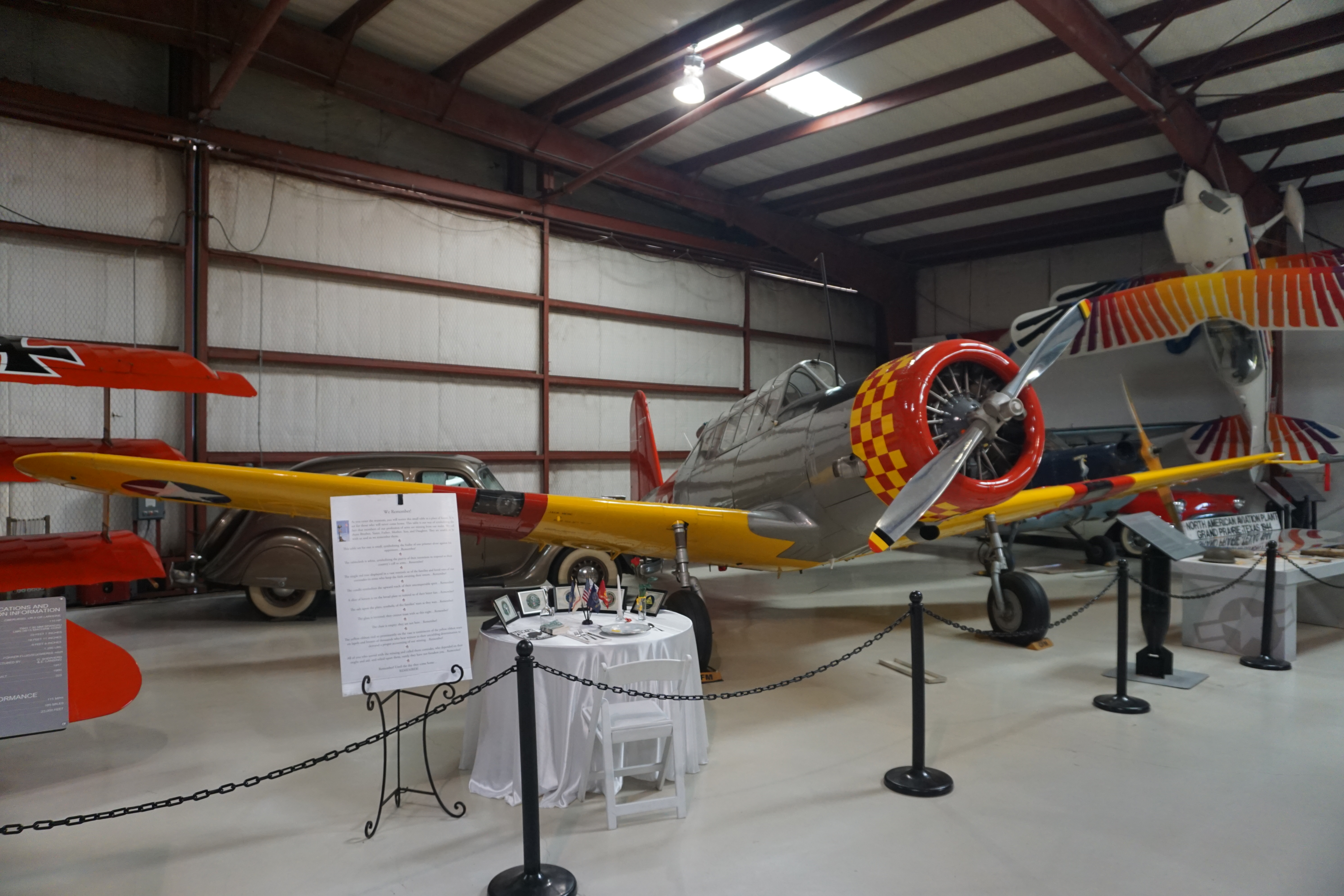 A Vultee SNV-2 Valiant on display at the Cavanaugh Flight Museum at Addison Airport in Addison, Texas (United States).